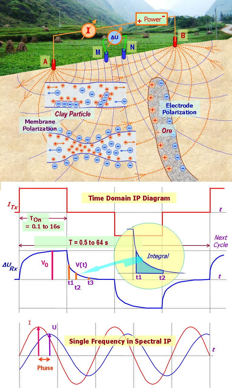 Induced Polarization Survey Outlines